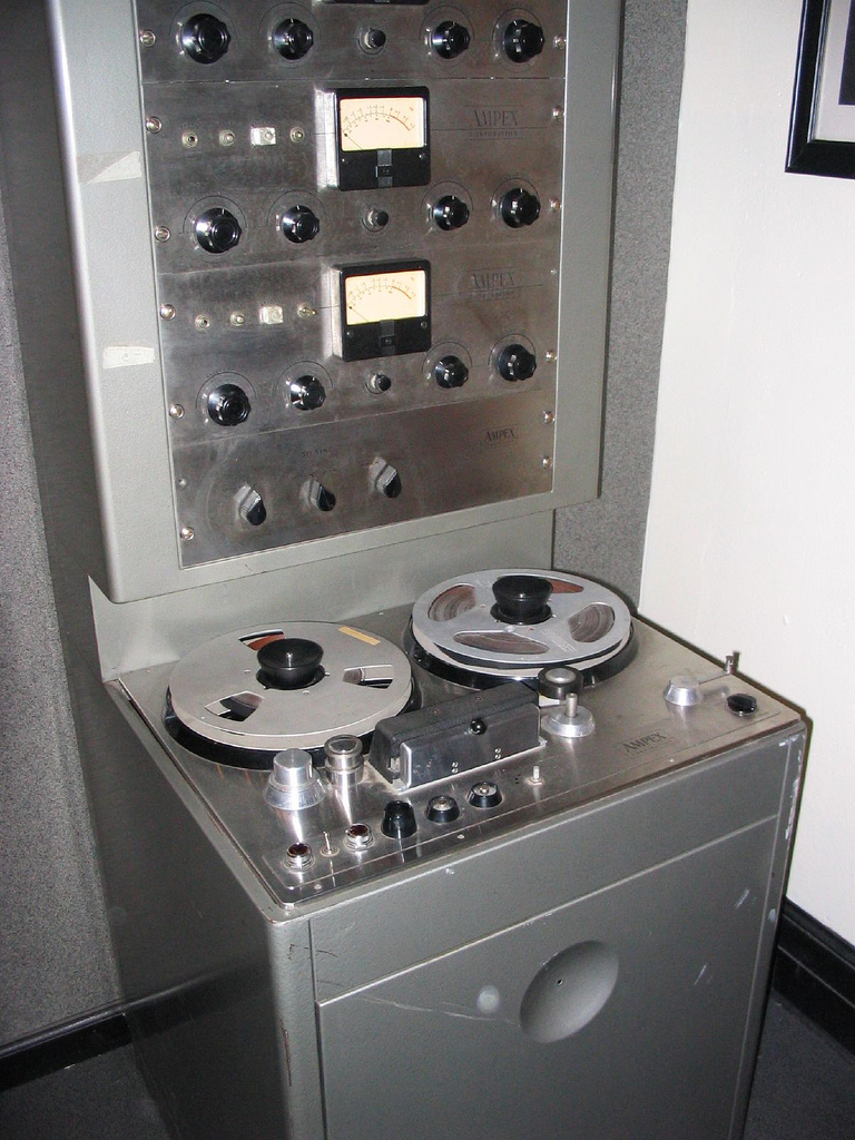 Ampex model 300 1/2" 3-channel recorders [1] at Sun Studio References ↑ When Vinyl Ruled, 2000-09i. 109th AES Convention in Los Angeles, 2000 Sept 22...25. AES Historical Committee, Audio Engineering Society.